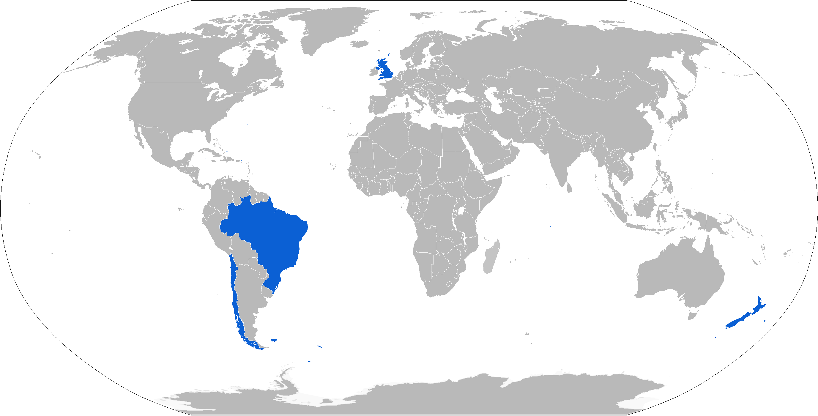 Map of CAMM operators in blue